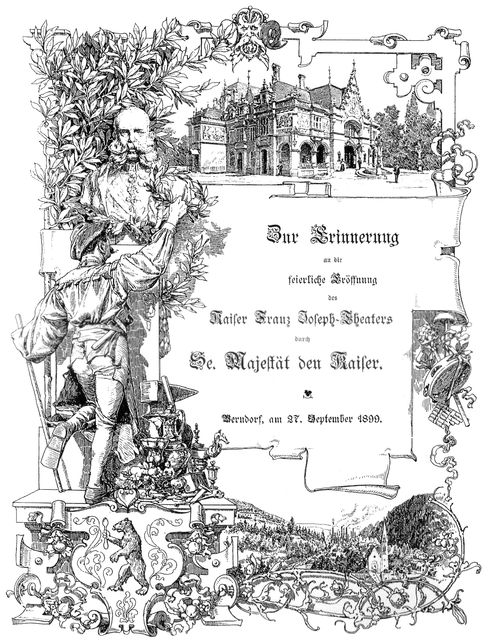 Playbill for the performance at the Stadttheater Berndorf, Lower Austria, when Emperor Franz Joseph I opened the Kaiser-Franz-Joseph Theatre on 1899-09-27.